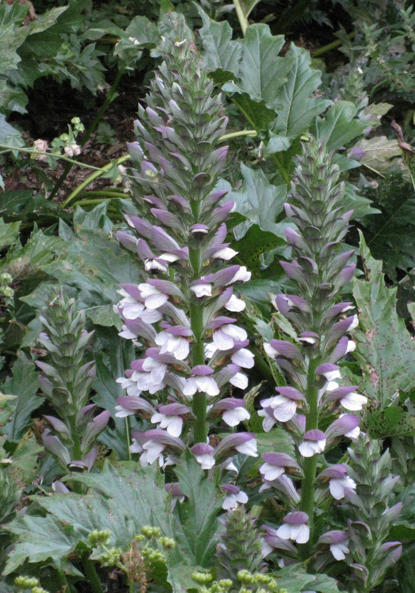 Acanthus mollis flower spikes and leaves, below the town wall of Erice, Sicily. Acanthus leaves are the model for the ornaments of Corinthian columns.